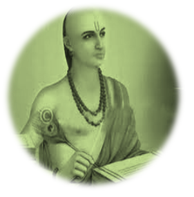 A picture of grammarian writing